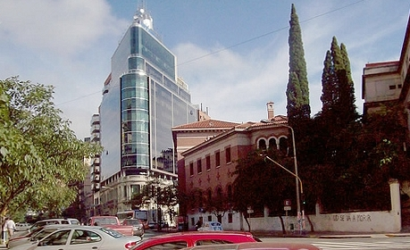 Ecipsa Tower and Archbishop's Residence. Yrigoyen Avenue, Córdoba, Argentina.